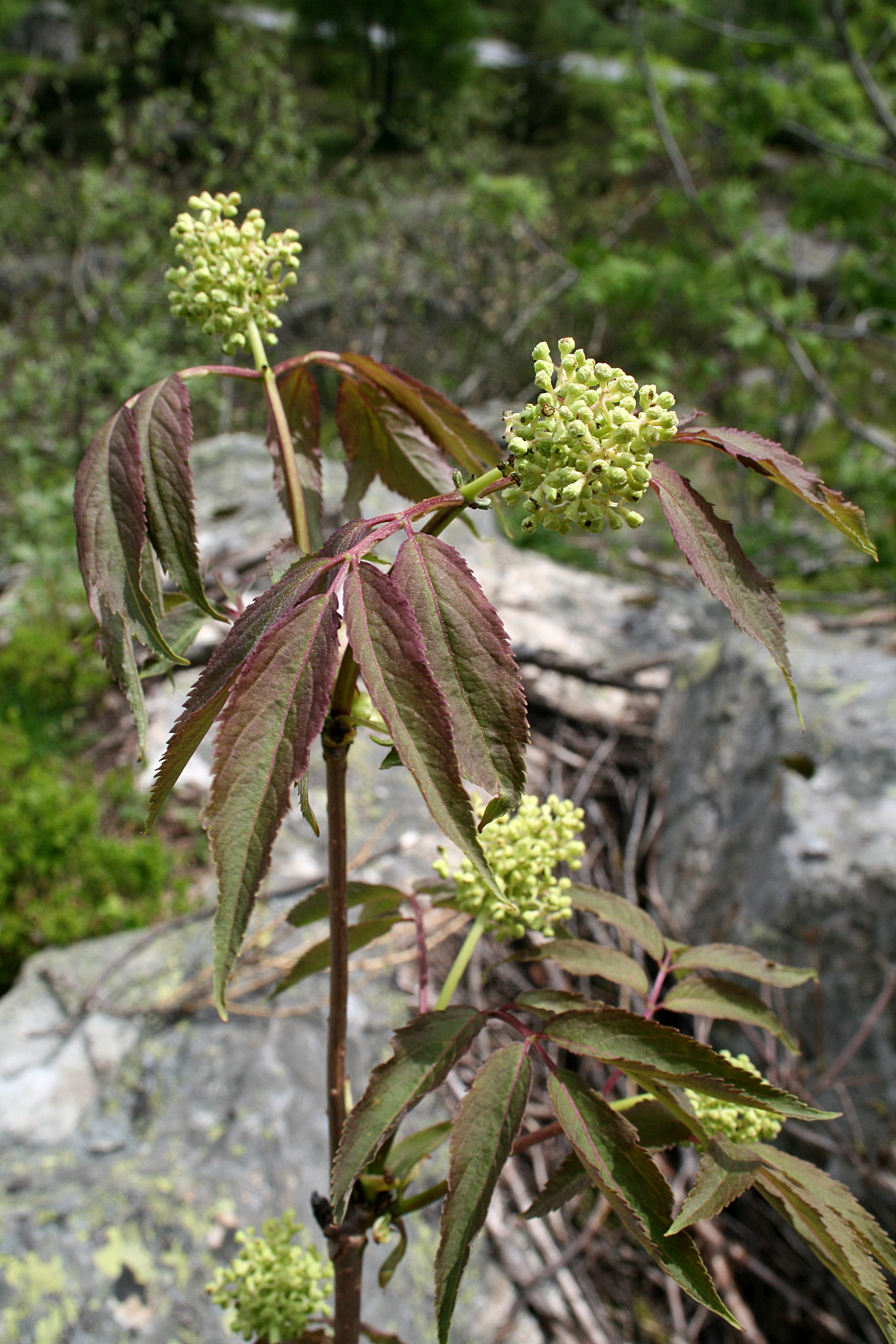 Red Elderberry